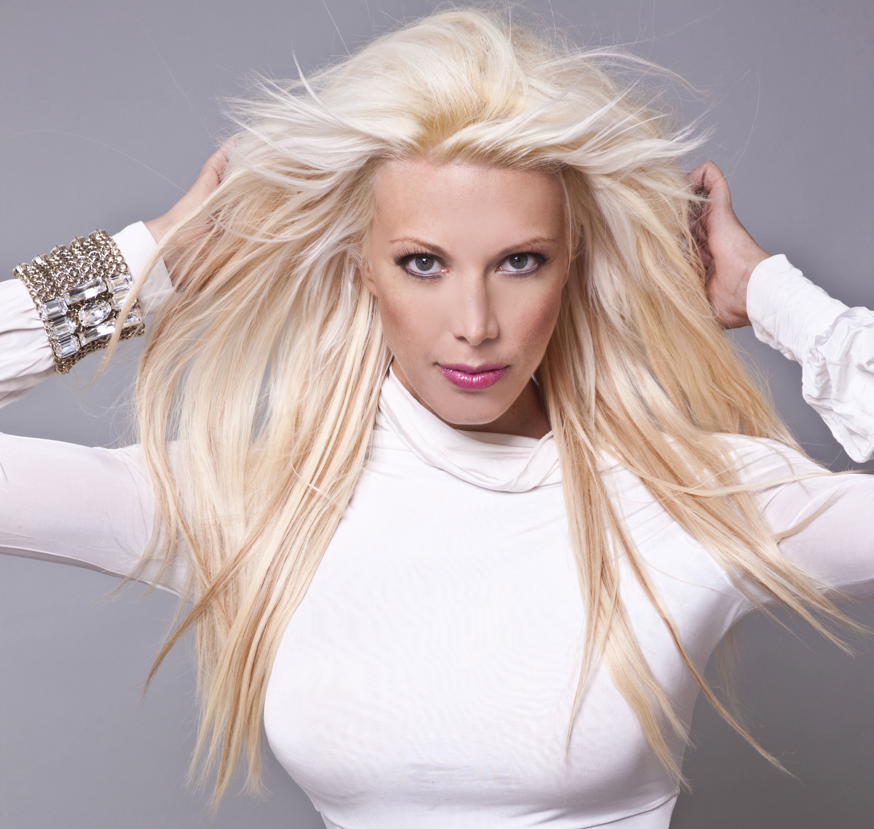 Tamara Gee publicity photo